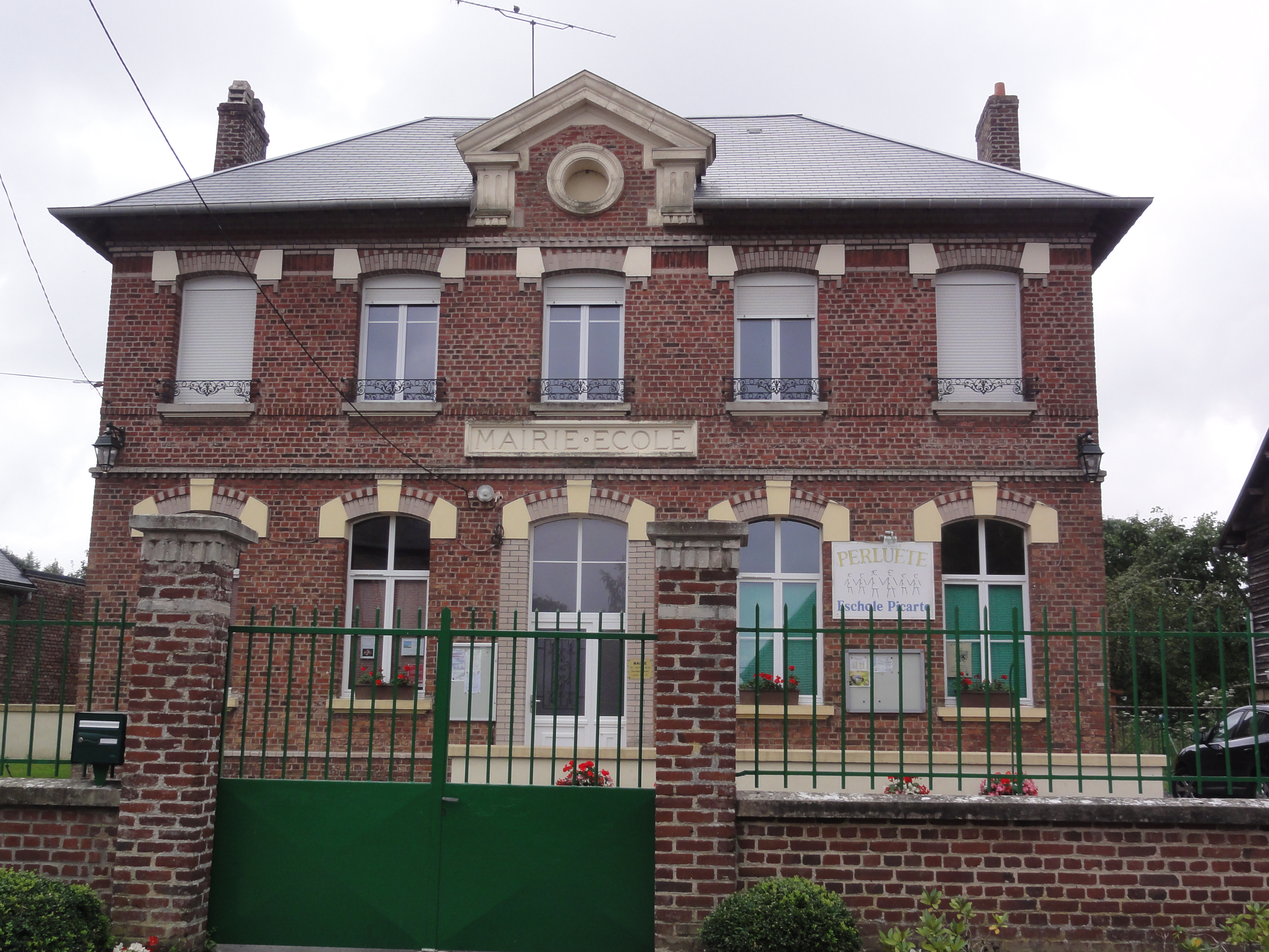 Trefcon (Aisne) mairie-école